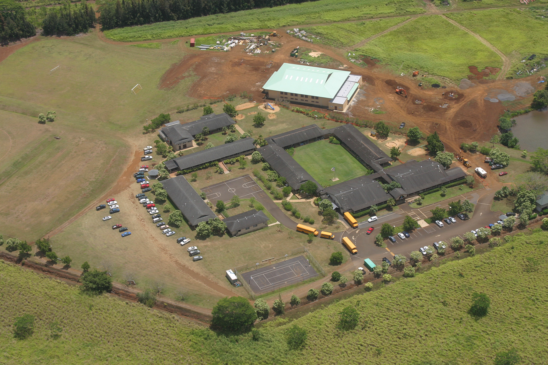 Aerial view of Island School, Puhi, Kauai, Hawaii.